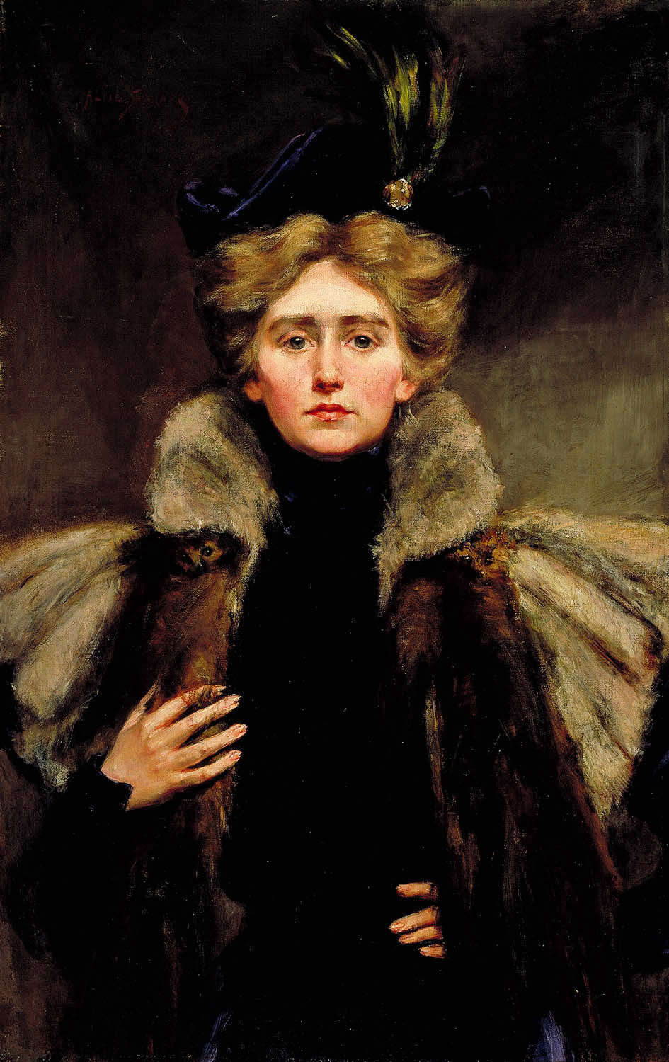 A portrait of the writer and salonist Natalie Clifford Barney. - Note: although the Smithsonian website says "c. 1905", Jean Kling's biography of Alice Pike Barney dates this painting to 1896 and identifies it as having hung in the 1897 Paris Salon and appeared in the Salon's Catalogue Illustré. (Smithsonian Institution Press, ISBN 1-56098-344-2, p. 118.)